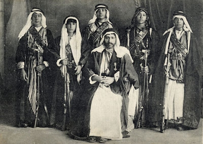 Post-card of Emir [Prince] Mejhem ibn Meheid, chief of the Anaza tribe near Aleppo with his sons after he was decorated with the Croix de Legion d'Honneur on 20th. of Sept. 1920 by General Gouraud. British Consul Neale reports from Aleppo dealt extensively with the trouble caused by the Anaza in the Aleppo region, such as attacking caravans, pilgrims and the Christians of Aleppo, he reported on 5 April 1850 about the coming to Aleppo of Sheikh Jid'an of Anaza and the awarding to him of a robe of honor [Ottoman equivalent of medals] in view of the submission to the government by the bedouins of Anaza in the region of Jabbul[east of Aleppo].